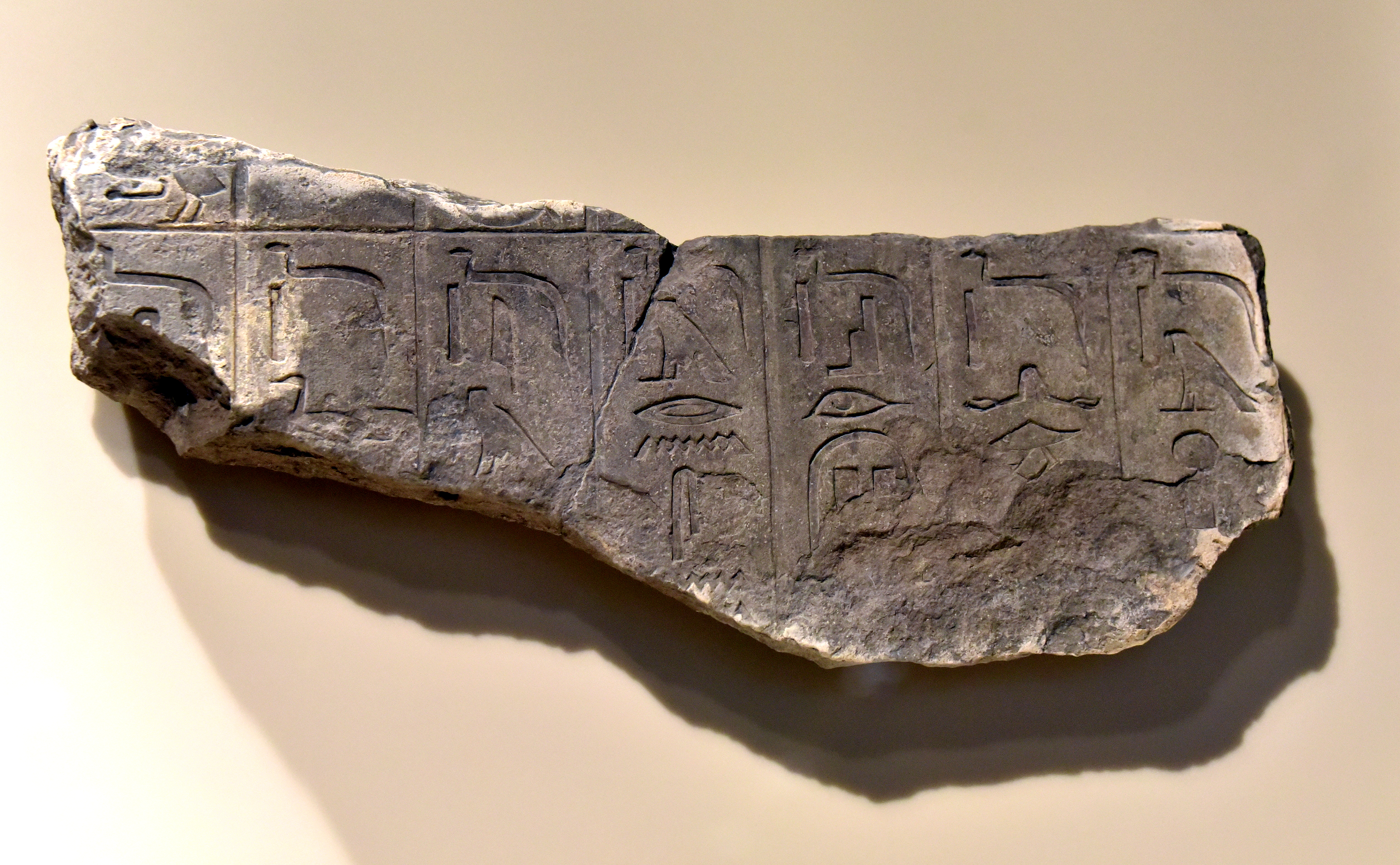 Relief fragment with the spells 354 and 255 with the Pyramid Texts. From the Pyramid of Pepi II at Saqqara, Egypt. Old Kingdom, 6th Dynasty, 2279-2219 BCE. Neues Museum, Berlin, Germany. Limestone, painted.